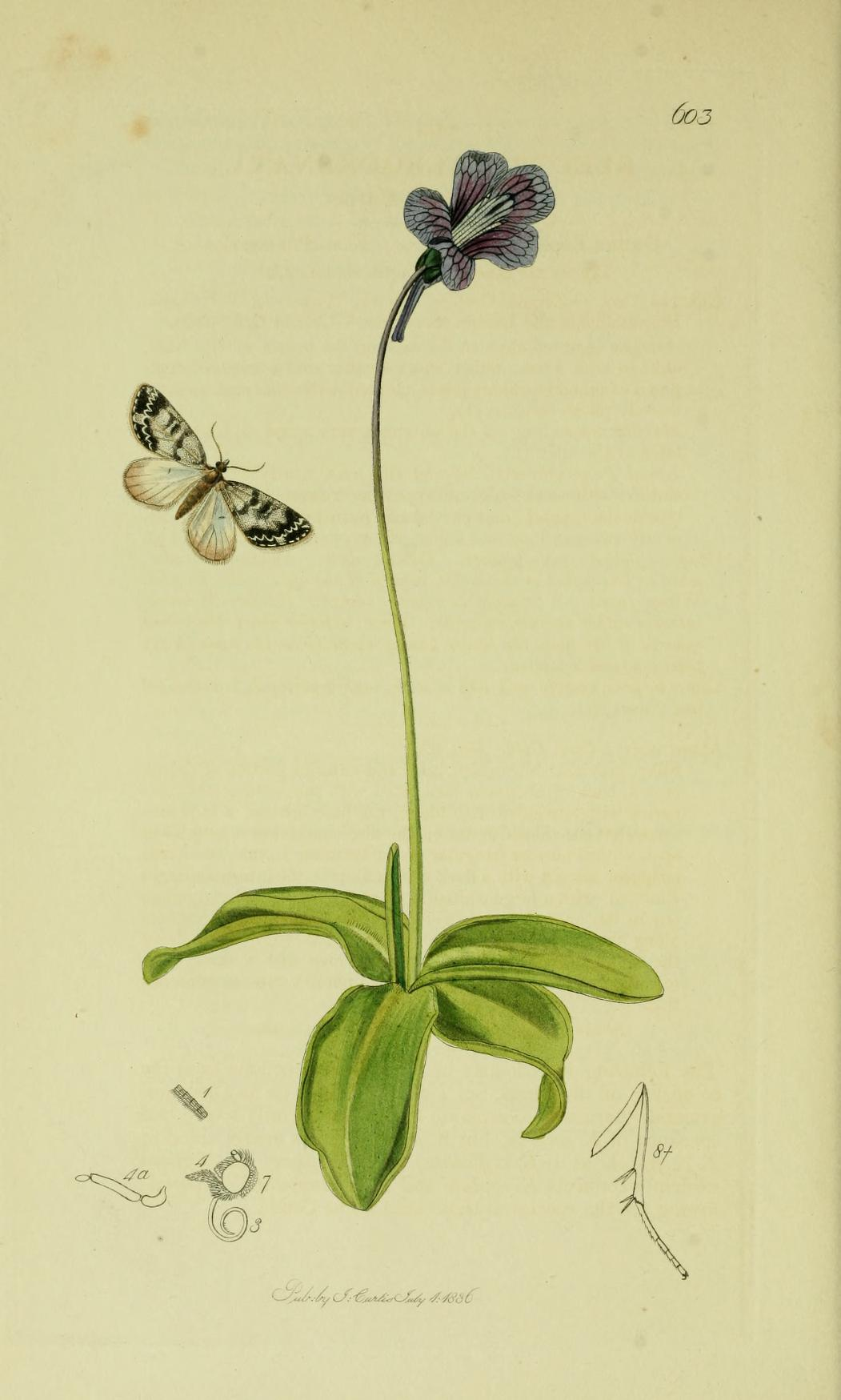 An illustration from British Entomology by John Curtis. 603. Lepidoptera: Electra albocrenata Curtis or Electrophaes corylata (Durham Carpet)